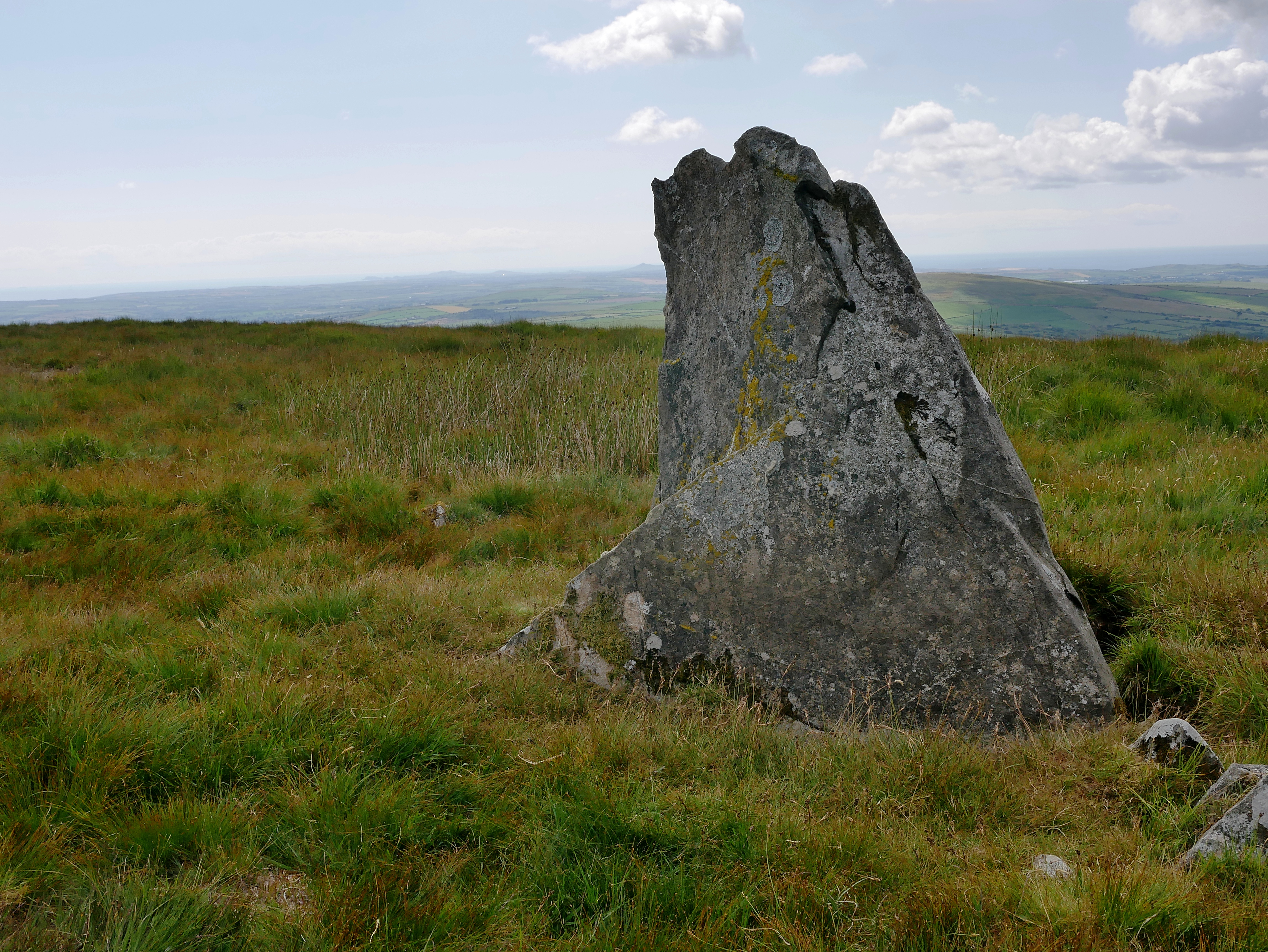 Cerrig Lladron Standing Stone - Preseli Hills, Pembrokeshire (Wales)